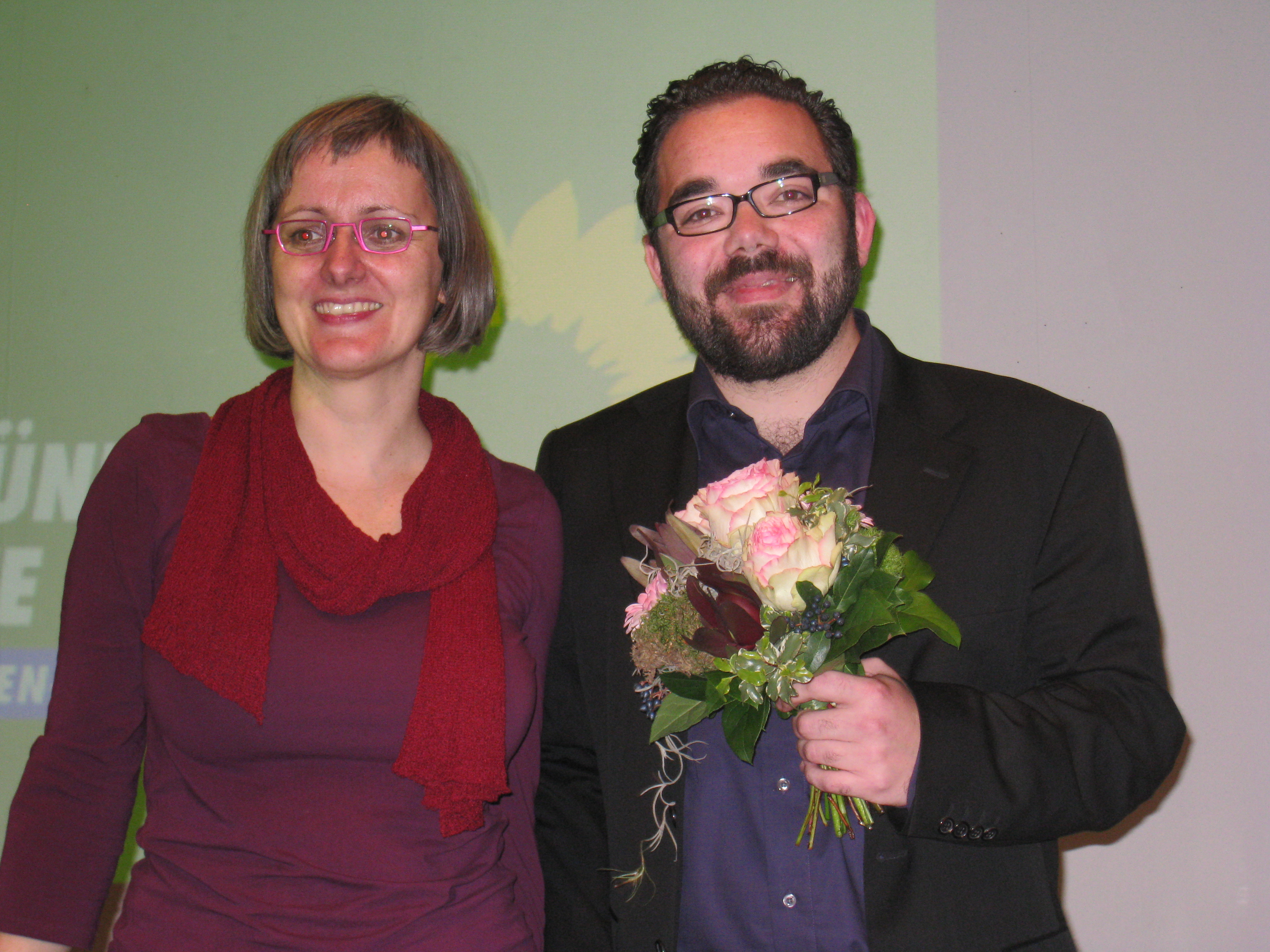 Silke Krebs and Christian Kühn, German politicians of The Greens